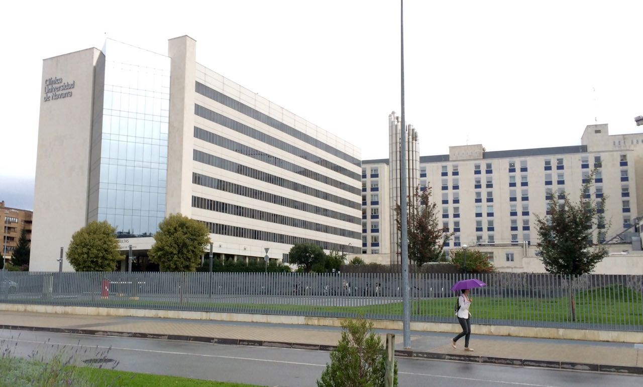 Clinica University of Navarra